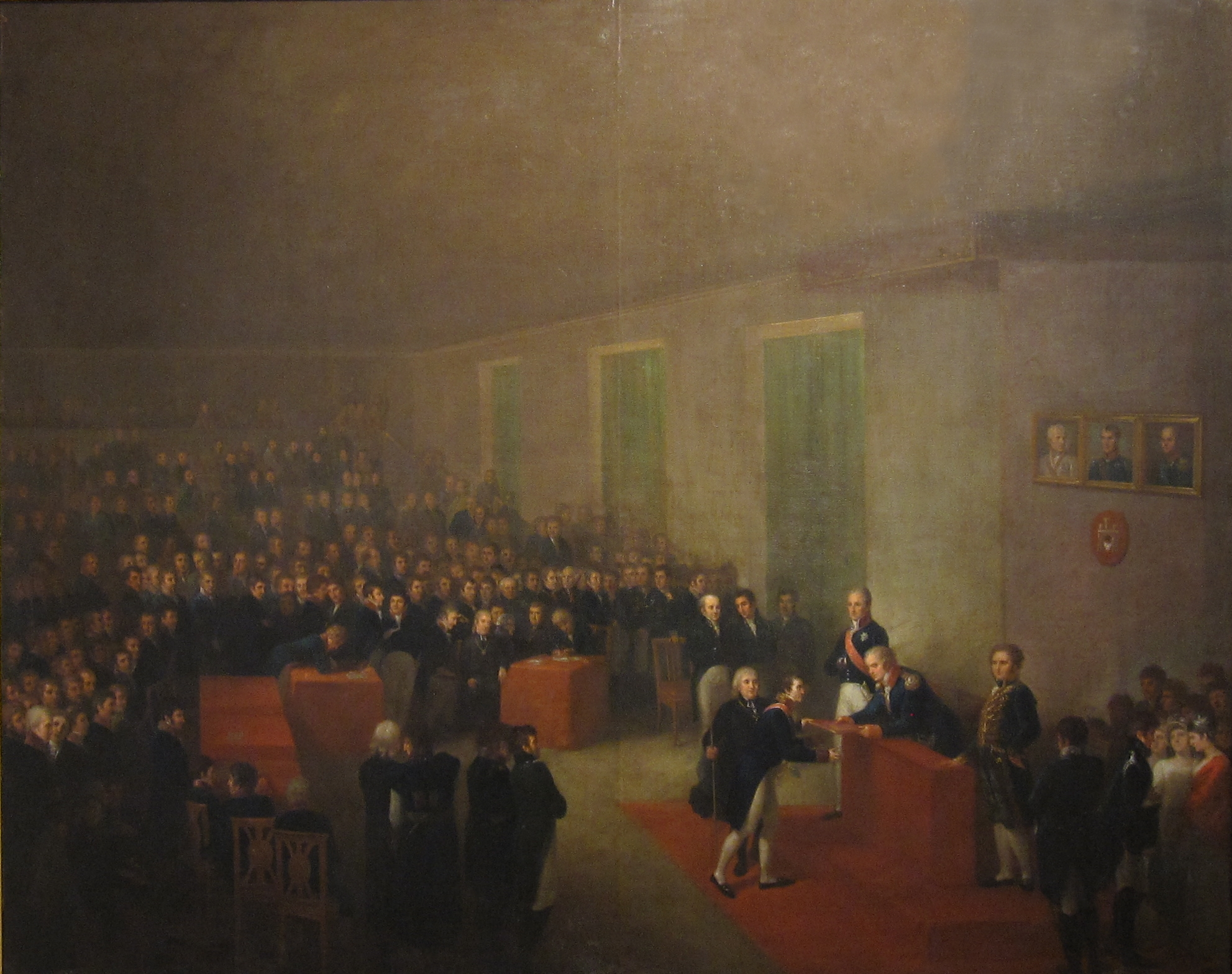 The act of granting the constitution to the Free City of Cracow. Oil on canvas, Jagiellonian University.